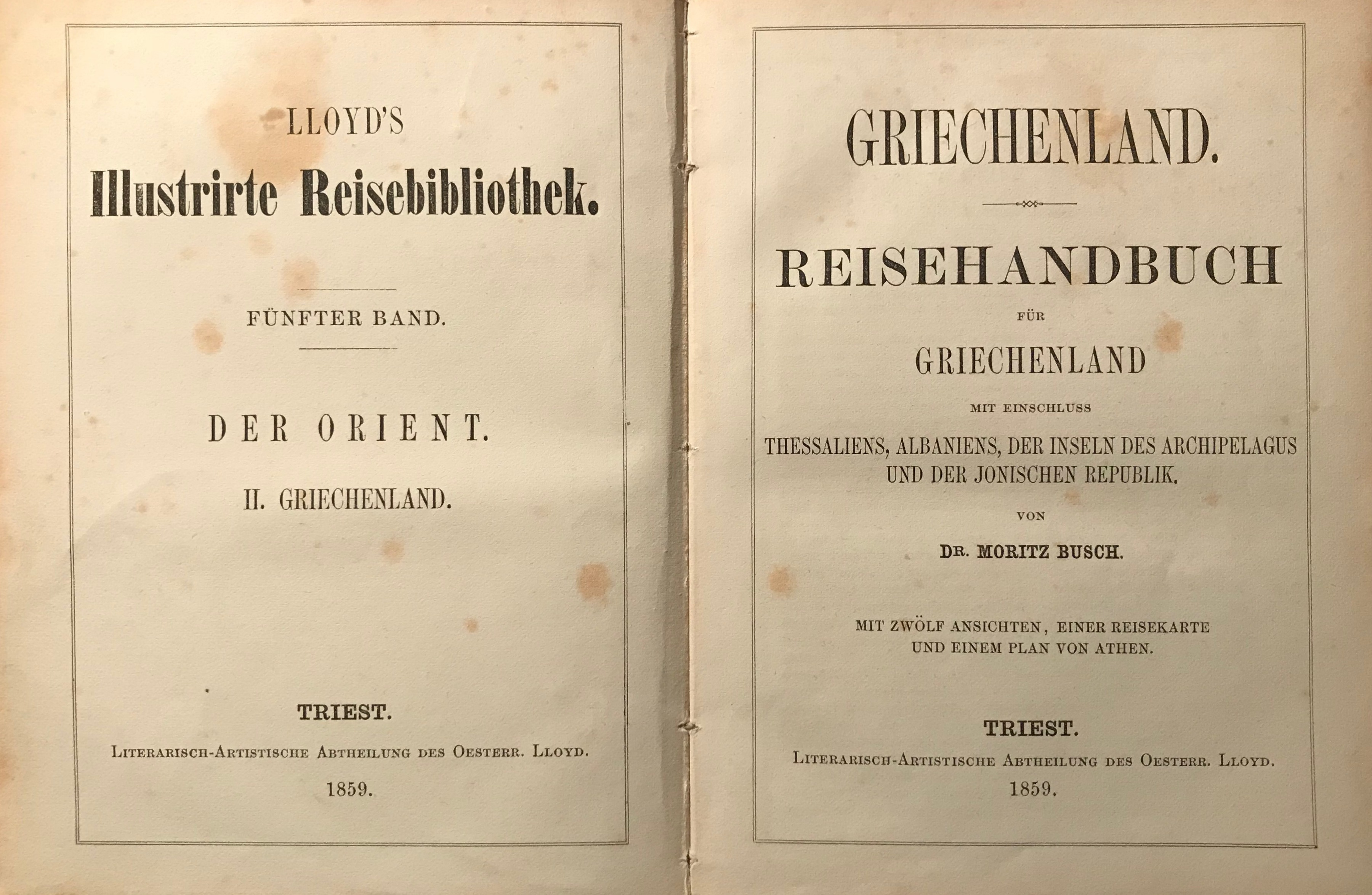 Title page of the travel guide "Griechenland " by Moritz Busch (1859) of the Austrian Lloyd Triest